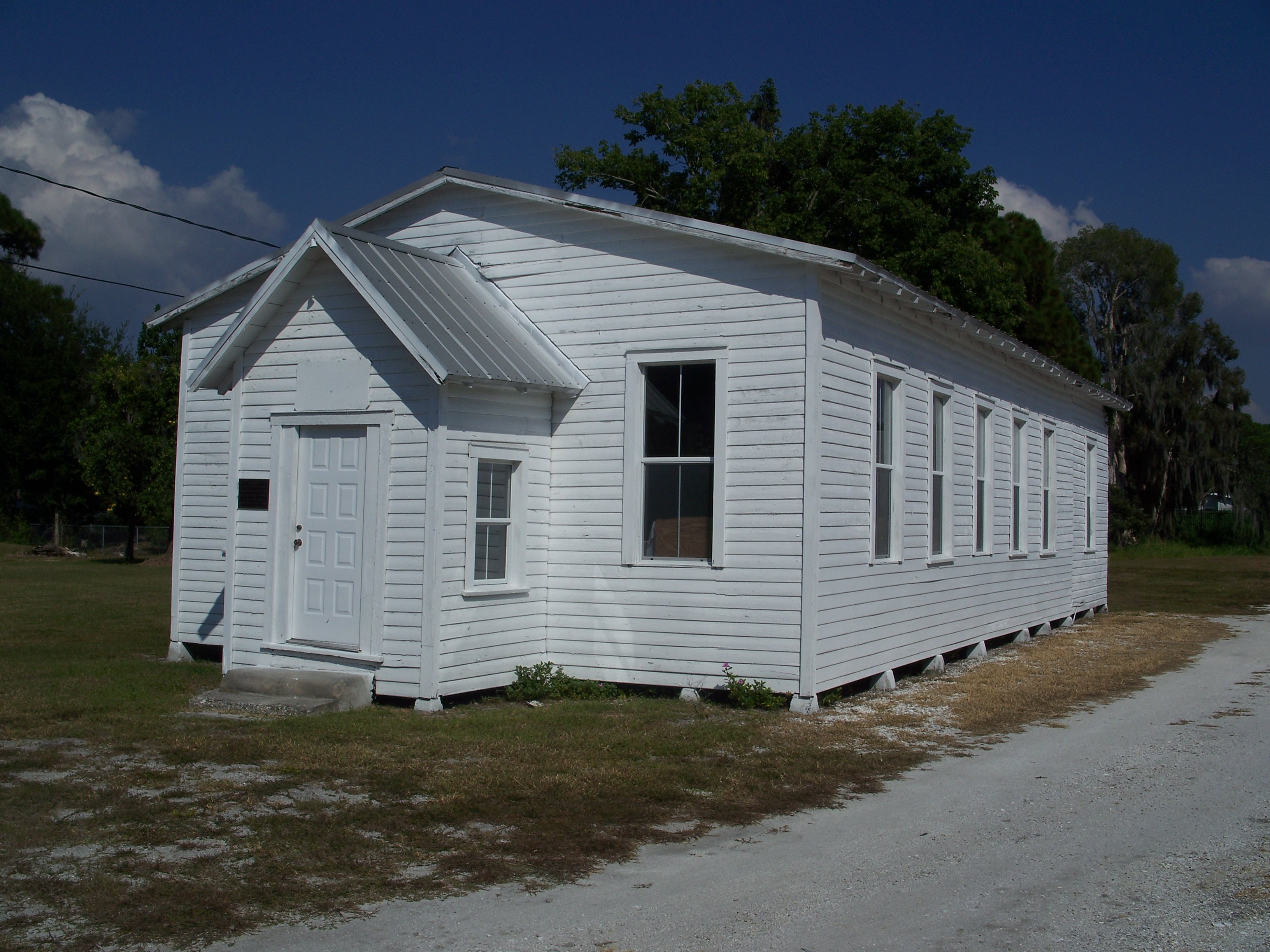 Laurel, Florida: Johnson Chapel Missionary Baptist Church